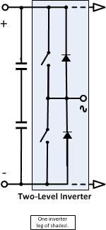 Simplified two-level interver topology. Adapted from part of slide 35 of Paes, Richard (June 2011), "An Overview of Medium Voltage AC Adjustable Speed Drives . . .", Swamy & Kume (May 2008), "Present state and a futuristic vision of motor drive technology" and other sources.